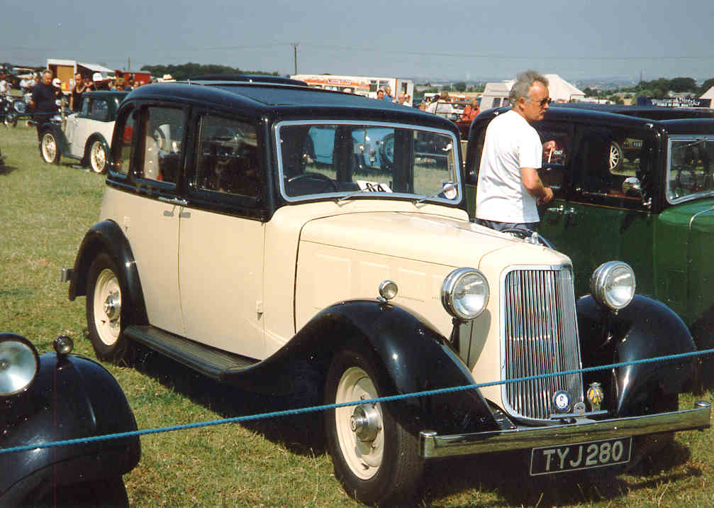 Armstrong Siddeley 12hp Probably 1936. (from DVLA) 1998cc, manf. 1937, first registered 30 April 1937 Photographed by myself